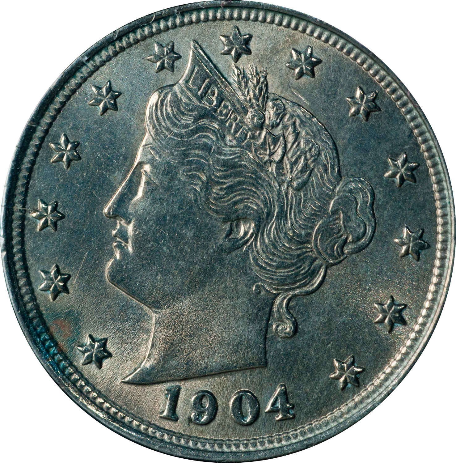 Liberty head nickel obverse